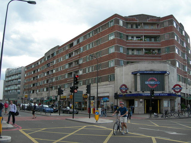 Clapham South Underground Station. View is along Balham Hill (looking towards Balham), the shops are Westbury Parade. Some of the flats above are starting to look a little tatty, in my opinion.